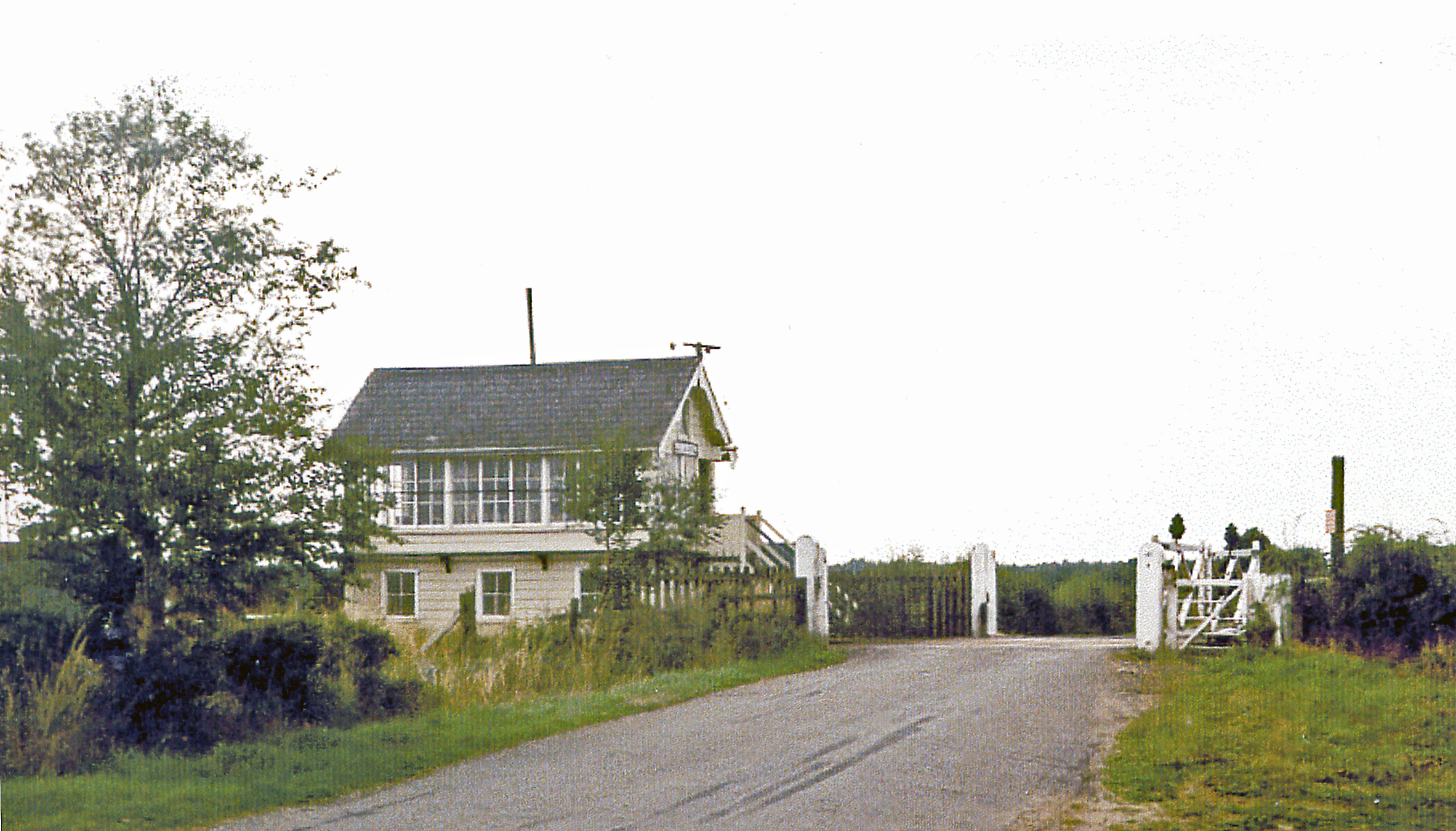 Signalbox and level-crossing at Claxby & Usselby (former) station, 1983, View westward, across the ex-GC Barnetby (to right) - (to left) Lincoln secondary main line. The station, which was on the north (right on photo) side of this road, and the west (far) side of the railway, has been demolished.[on the elft,] It was closed from 7/3/60, but the line is still flourishing.